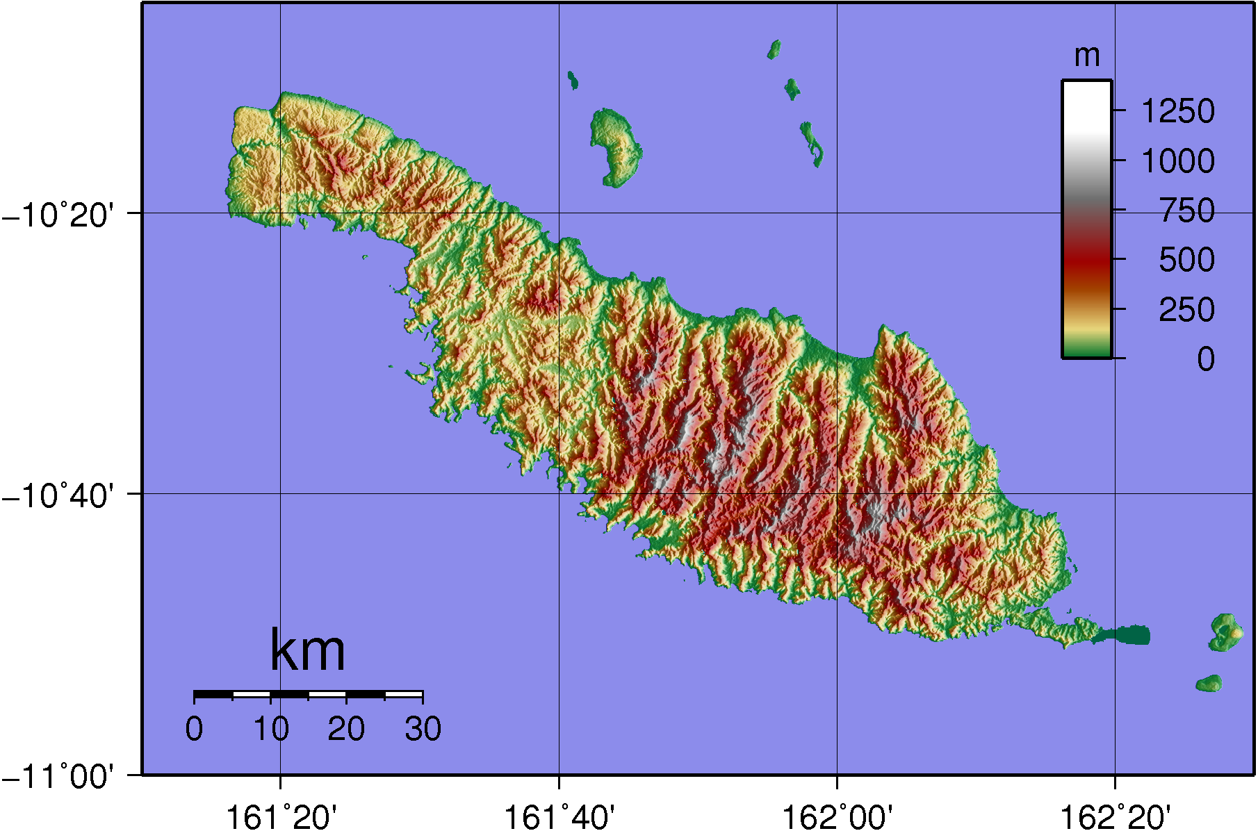 Topographical map of Makira Island in Solomon Islands.